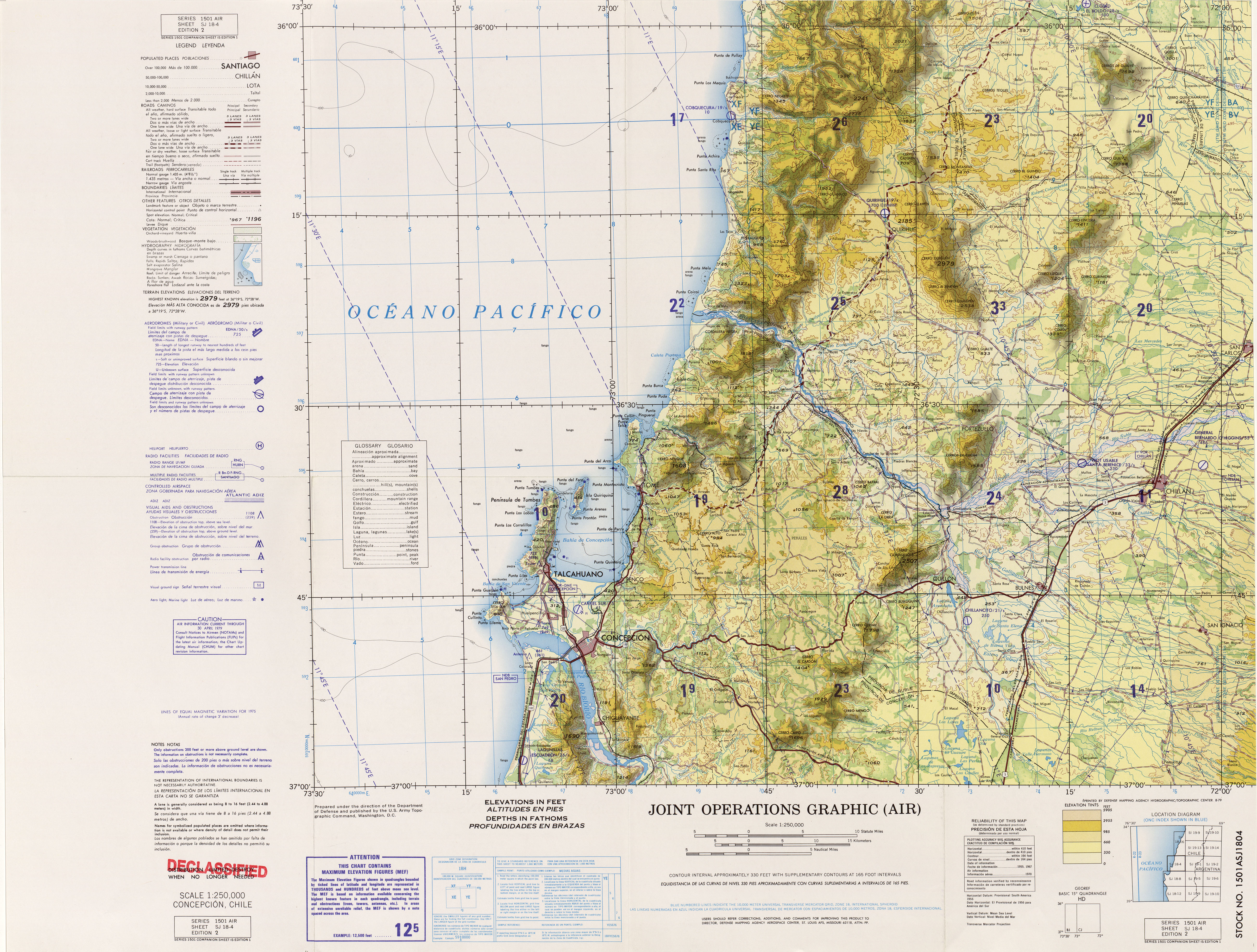 Talcahuano, Concepcion, San Pedro de la Paz, Tome, Chillan, San Carlos, Chiguayante